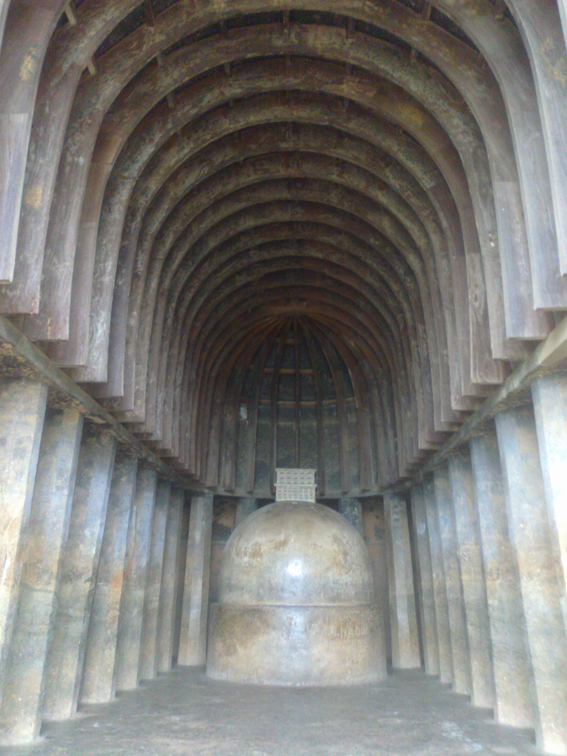 Bhaja Caves temple and Inscription,Pune.